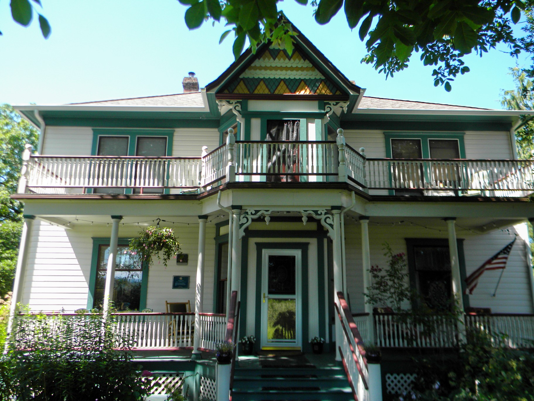 Andrew and Bergette Hjertoos Farm Property is a commercial tree farm.